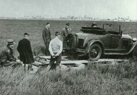 Mr. Kruisheer, the treasurer of the A.C.v.Z., places his Ford 2-seater on the chassis of the first dutch winch for gliders. Picture taken at schiphol airport on 9th of april 1933.